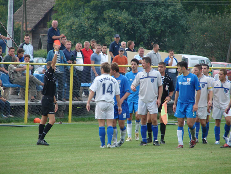 Red card